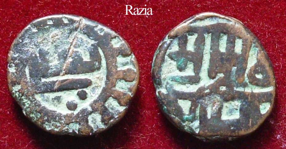 image from personal collection, Coin of Razia Sultana